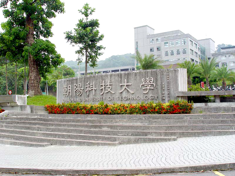 Chaoyang University of Technology Photo taken by JWR on Aug 1, 2006